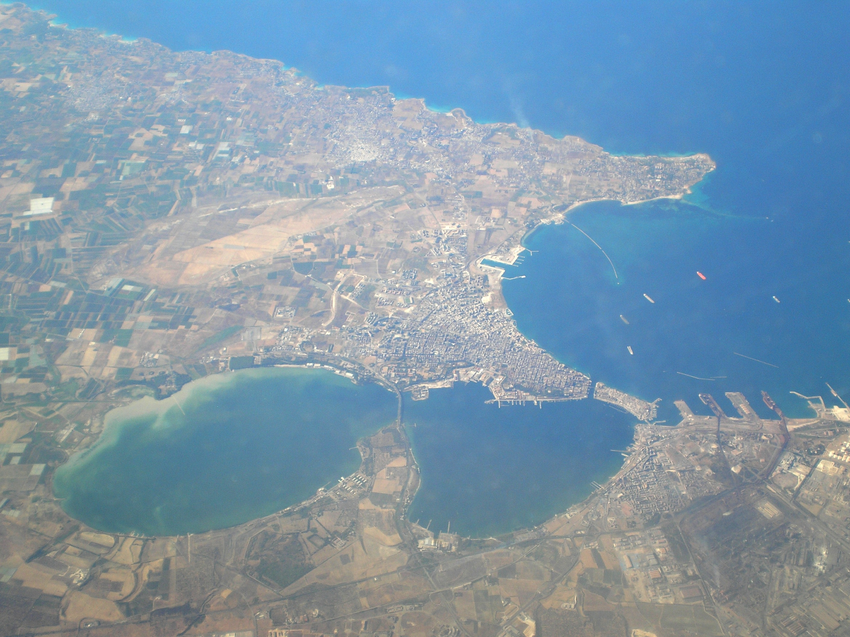 Aerial photograph of the city of Taranto, in Puglia, Italy.